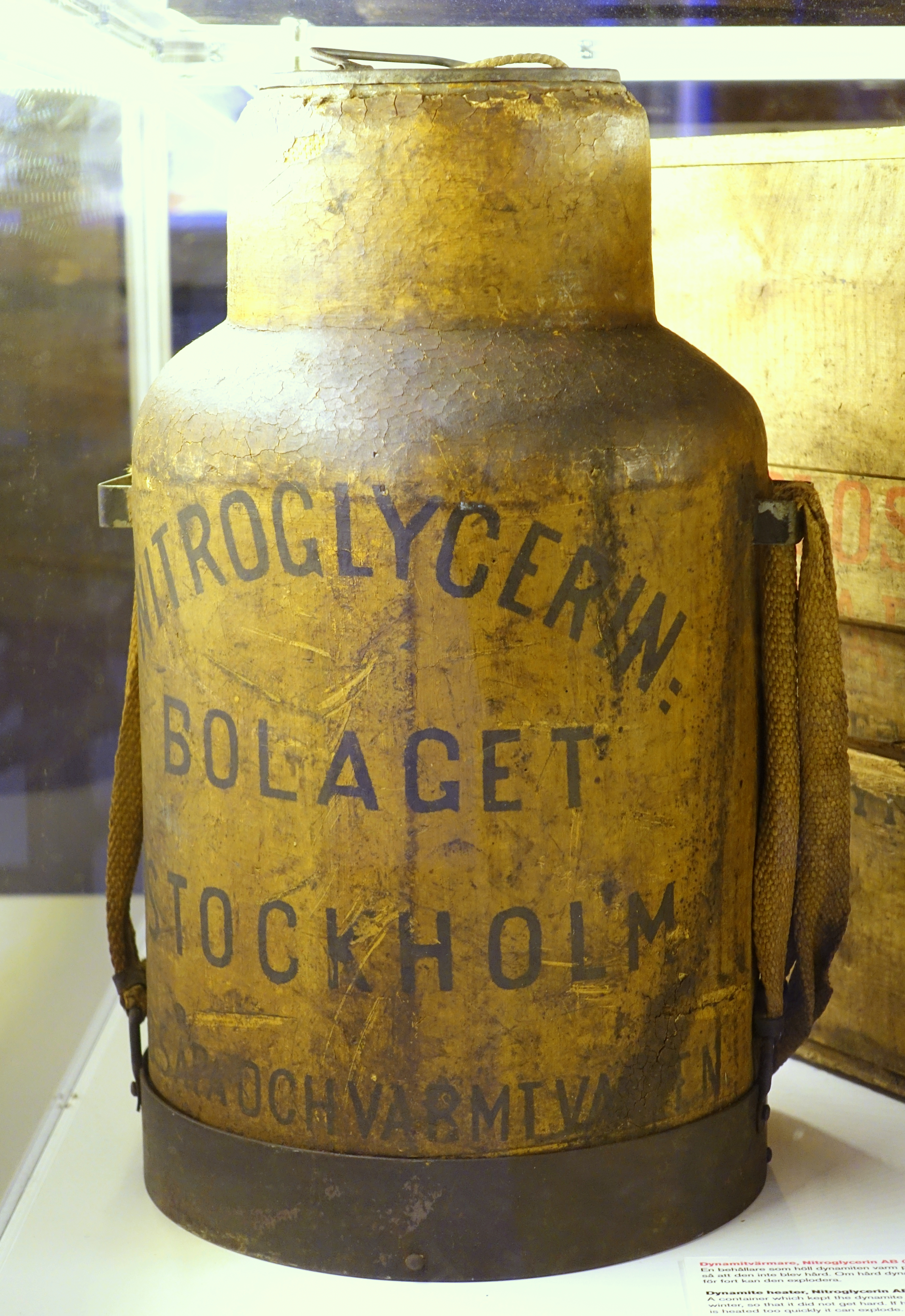 Exhibit in the Tekniska museet, Stockholm, Sweden. This work is old enough so that it is in the public domain.